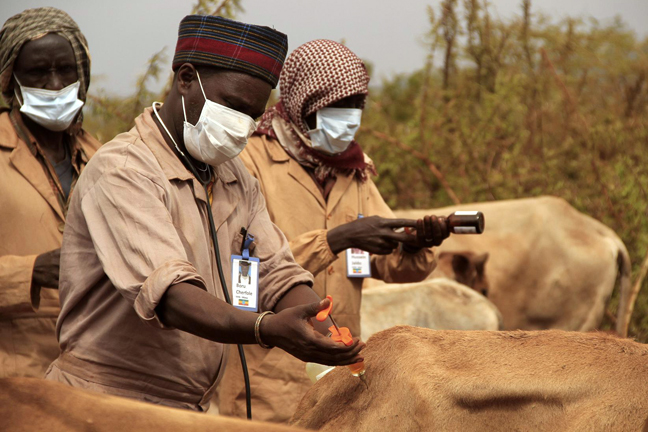 Animal Health Assistant Boru Cherfole (center) injects a cow with diminazen to treat trypanosomiasis (sleeping sickness), while Community Animal Health Workers draw up a multivitamin injection during an eight day Veterinary Civic Action Program Aug. 23, 2011, in Negele, Ethiopia. They are wearing masks to protect them from the blowing dirt and dust. Photo by U.S. Air Force Capt. Jennifer Pearson To learn more about U.S. Army Africa visit our official website at Official Twitter Feed: Official Vimeo video channel: Join the U.S. Army Africa conversation on Facebook